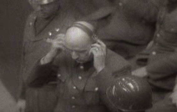 Wilhelm List (1880-1971), War Crimes Trials - Subsequent Trial Proceedings - Hostages Trial #7, Nuremberg, Germany. Sentencing Southeast Generals.